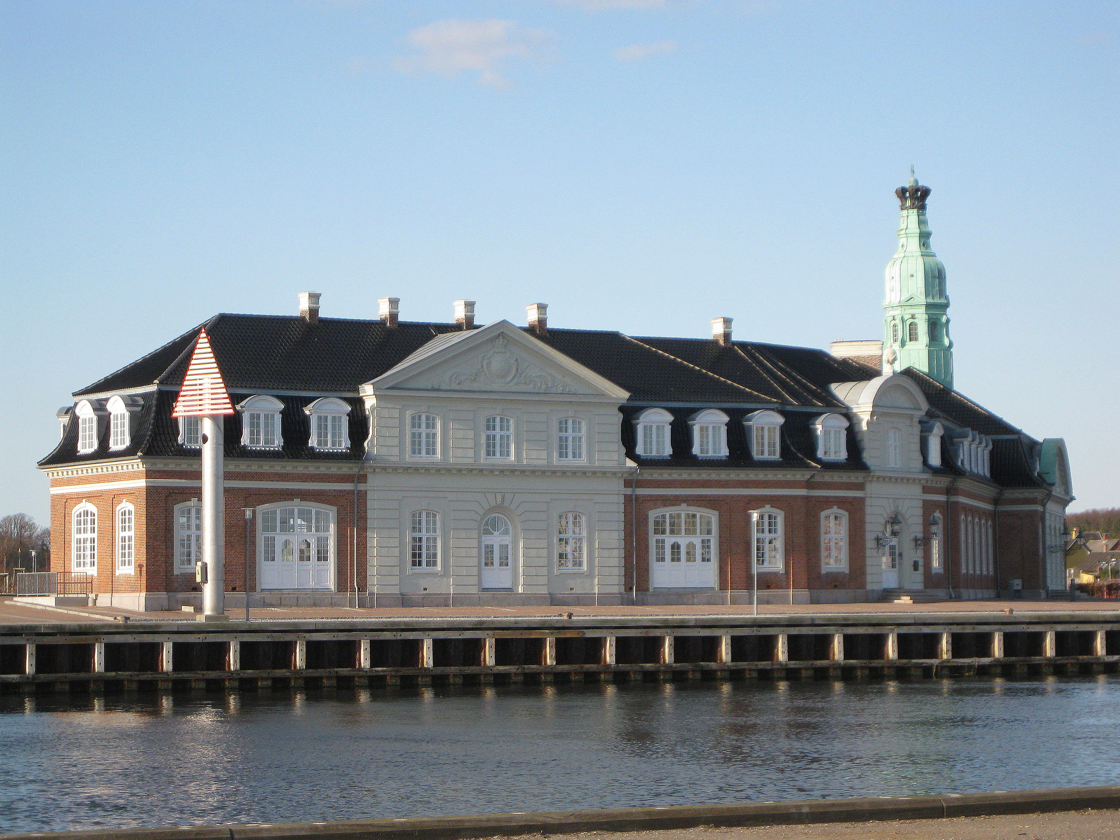 The former railway station at the habour of Korsør. The town is located in West Zealand, Denmark.